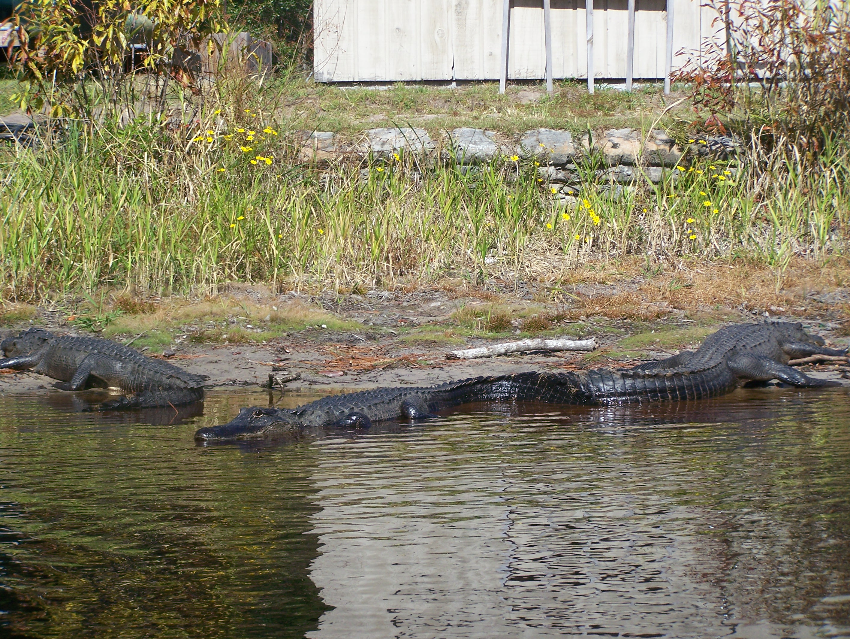 Famous american alligators in the Okefenokee National Wildlife Refuge, in Georgia, USA.